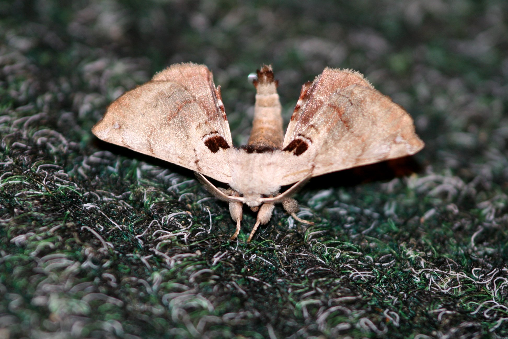 USA, Tennessee, Morgan County, Frozen Head State Park visitor center, 18 July 2007.